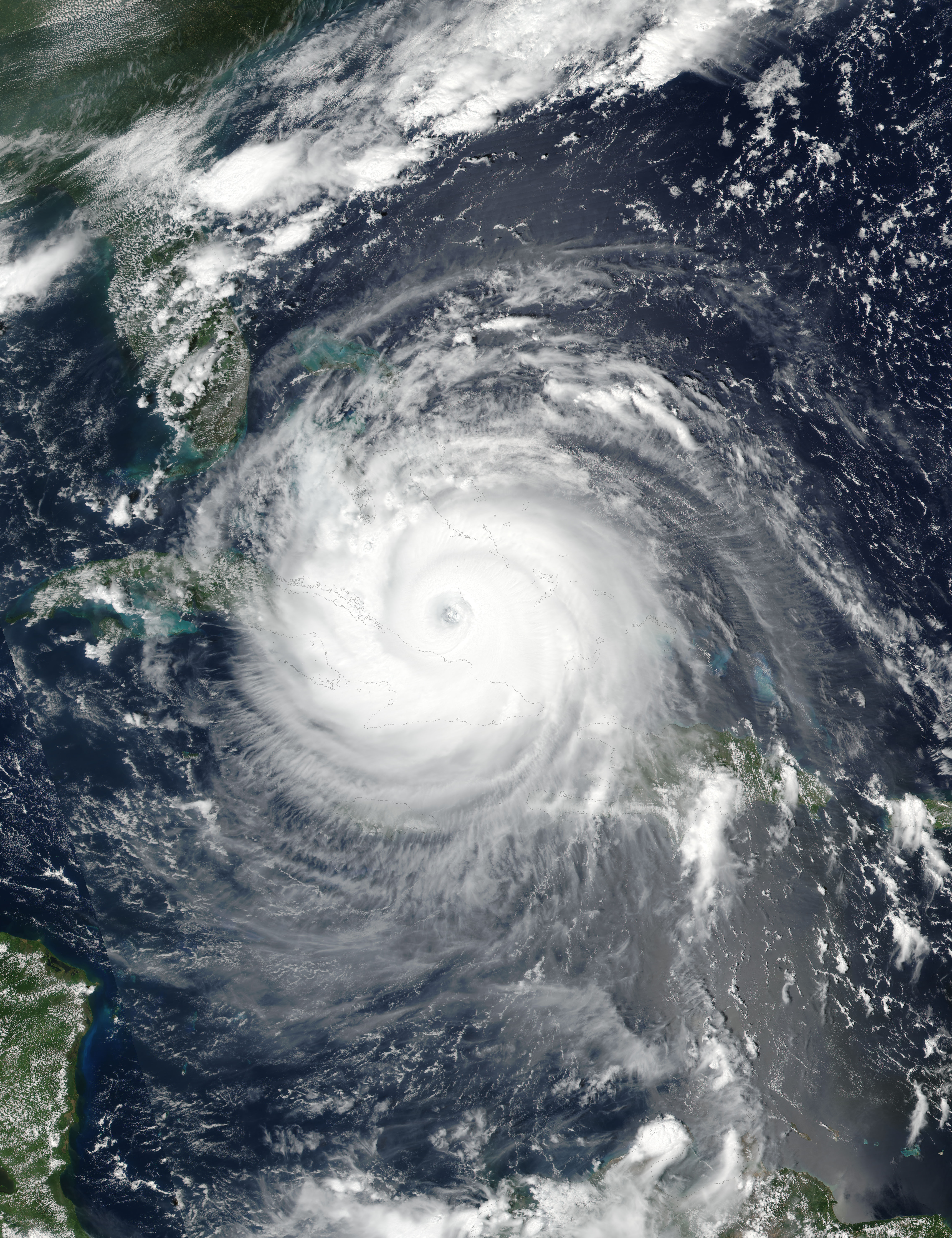 Hurricane Irma (11L) over Cuba and the Bahamas